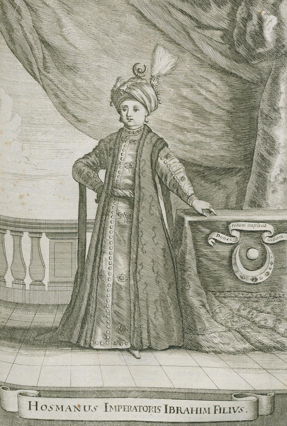 A depiction of Osman, allegedly a son of Ottoman Sultan Ibrahim of the Ottoman Empire. He and his mother Zaffira (named on p. 645 of the source, and illustrated in a separate engraving: see below), said to be one of the Sultan's wives, were on a Turkish ship that was part of a convoy sailing from Constantinople to Alexandria and carrying a number of pilgrims bound for Mecca, which was attacked by the Knights Hospitaller of Malta during the Action of 28 September 1644.